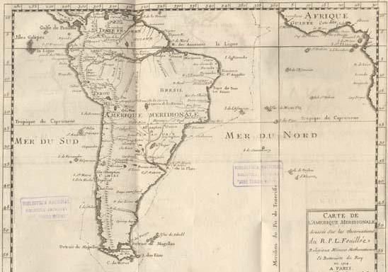 The Map of South America by Louis Éconches Feuillée or Feuillet